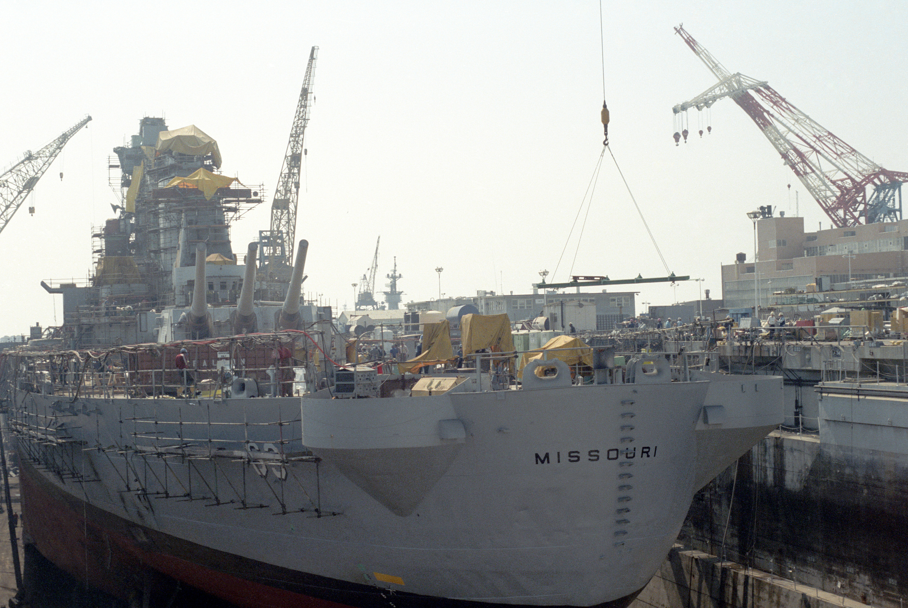 ID: DNSC8600772 Service Depicted: Navy A port quarter view of the battleship USS MISSOURI (BB 63) undergoing reactivation and modernization. Location: LONG BEACH NAVAL SHIPYARD, CALIFORNIA (CA) UNITED STATES OF AMERICA (USA)